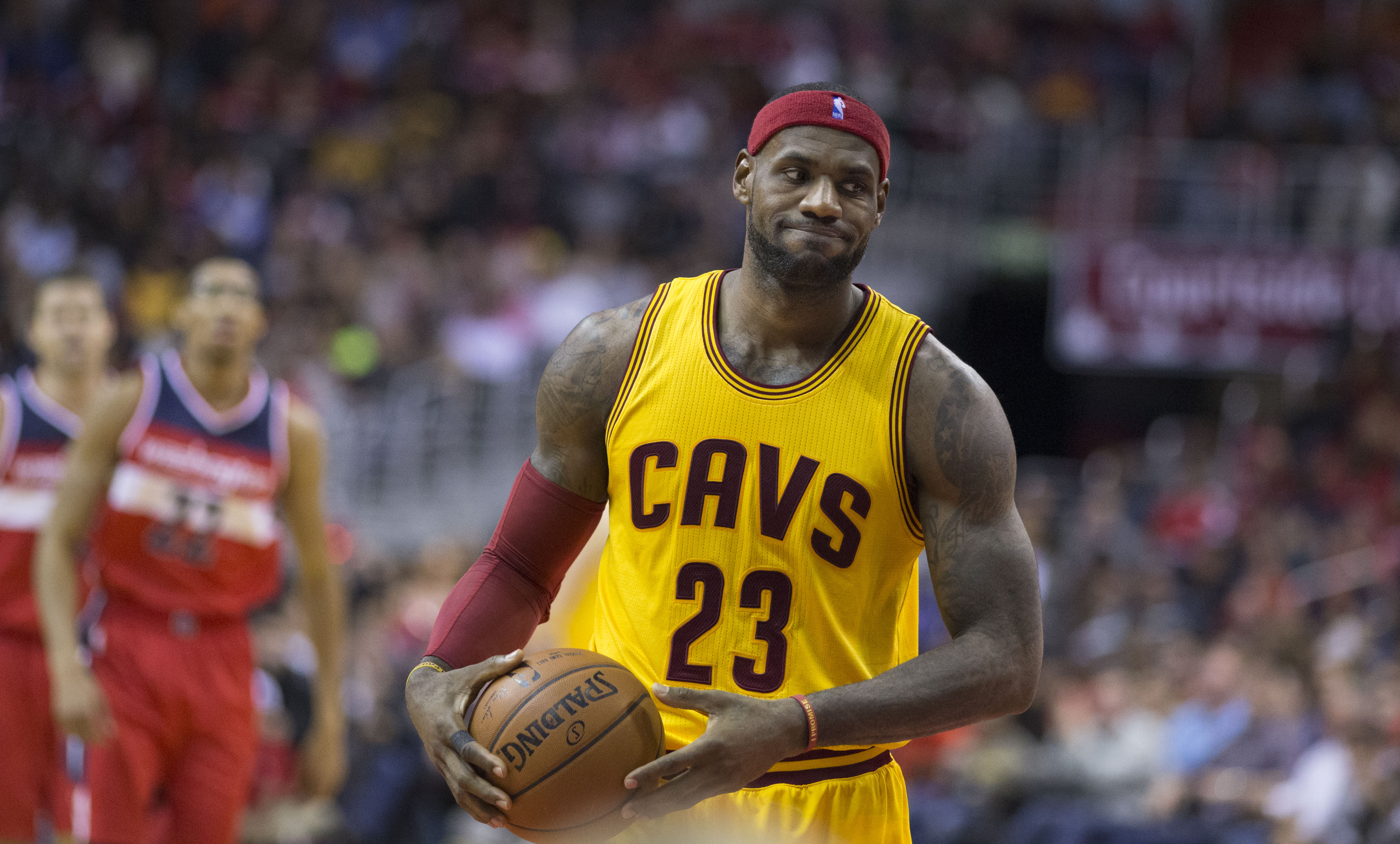 LeBron James of the Cleveland Cavaliers in a game against the Washington Wizards at Verizon Center on November 21, 2014 in Washington, DC.